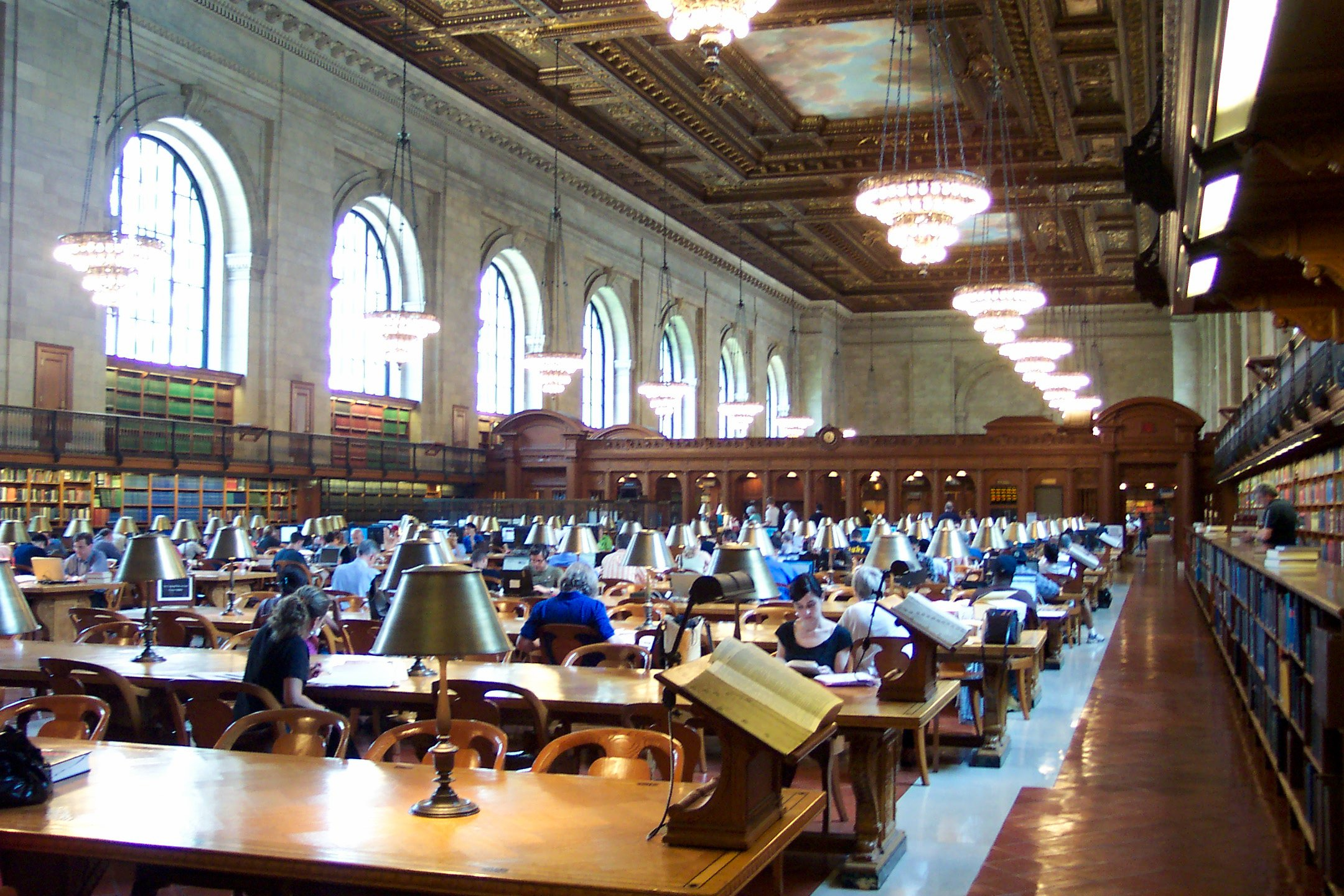 New York Public Library. a room sorrounded by books, with place for 300 people and wi-fi.